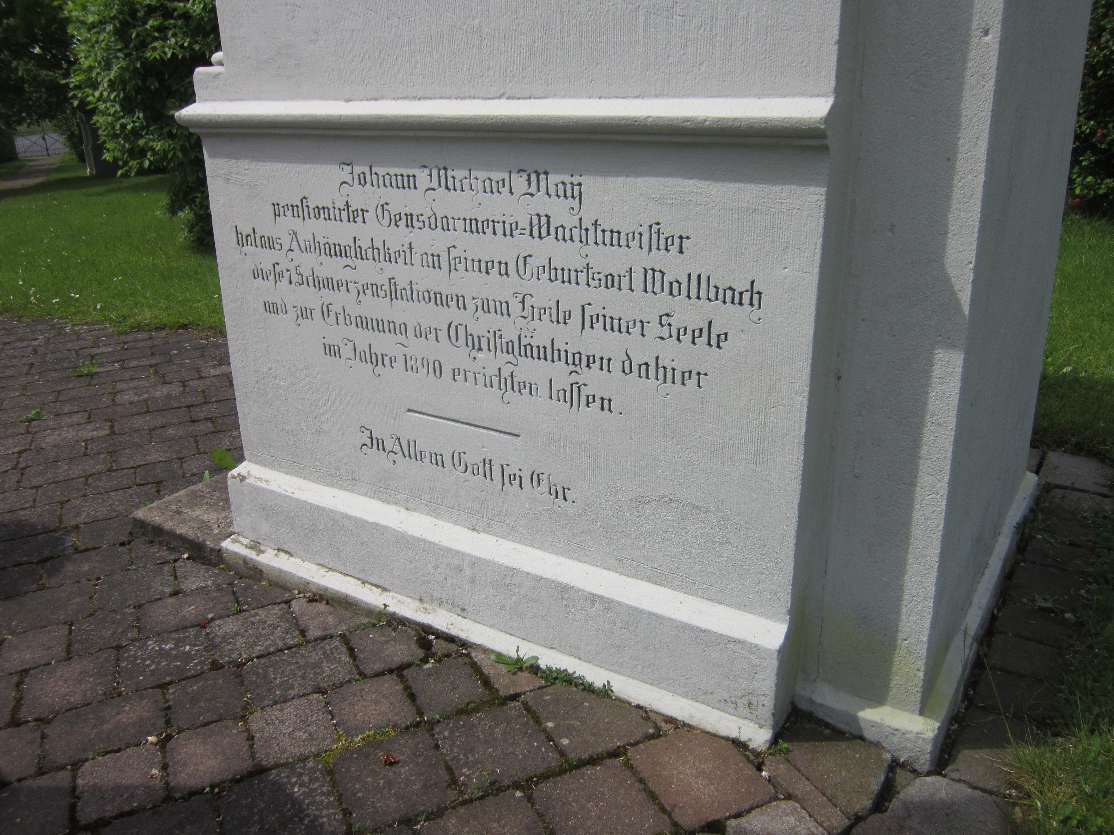 Founding inscription on the 7th station of the "Sieben-Schmerz-Kapelle" in Wollbach, a quarter of the German town of Burkardroth in Lower Franconia (Bavaria)